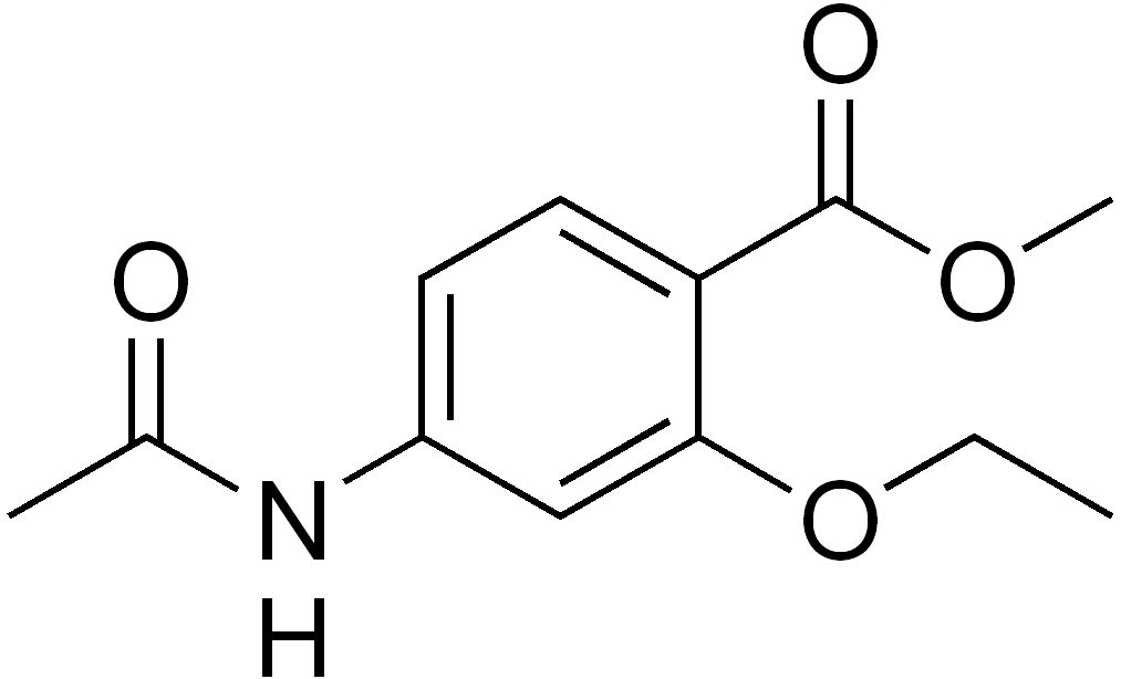 chemical structure of ethopabate